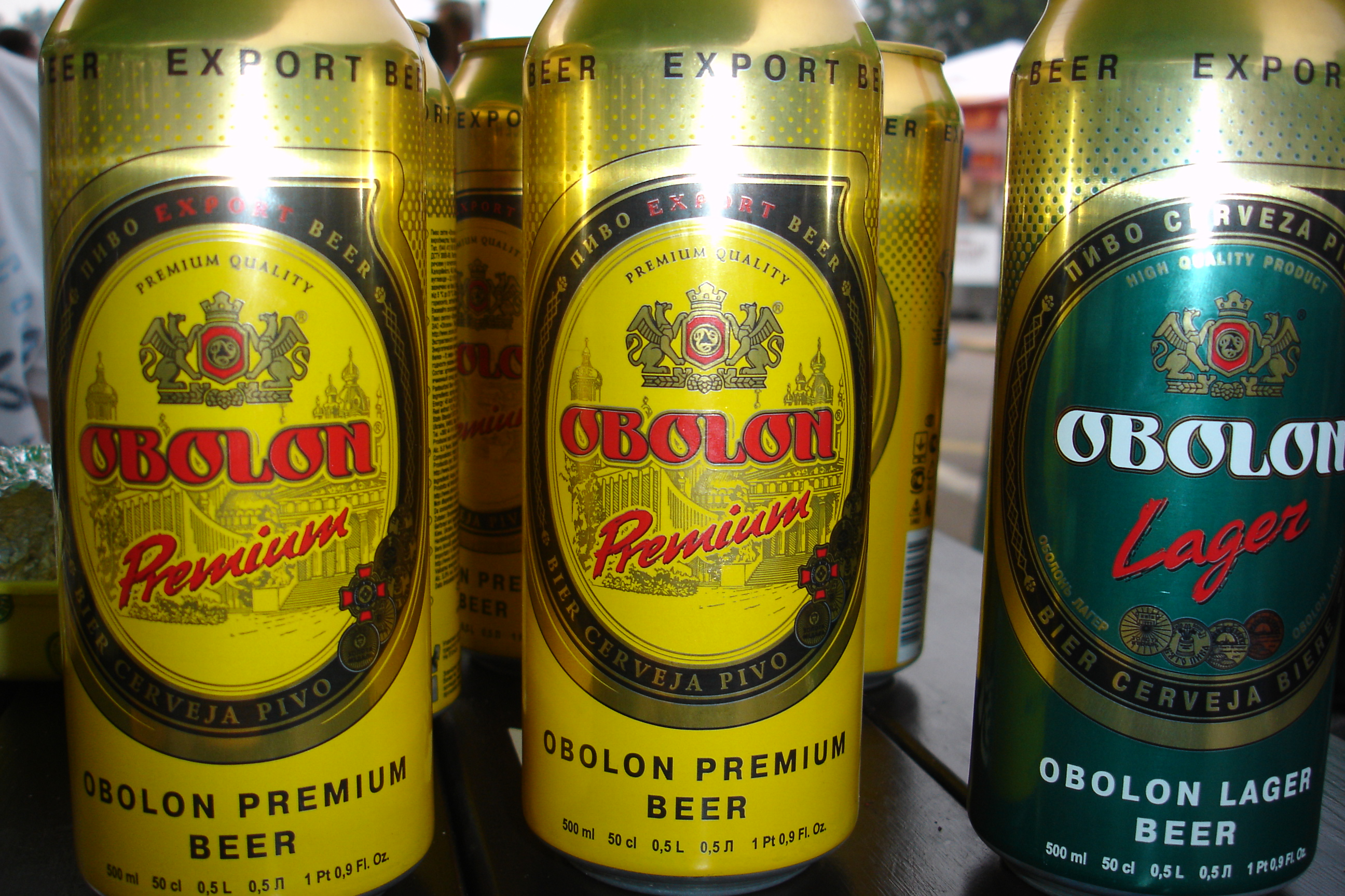 Obolon beer in Moscow beer fest, summer 2009. Luzhniki stadium.